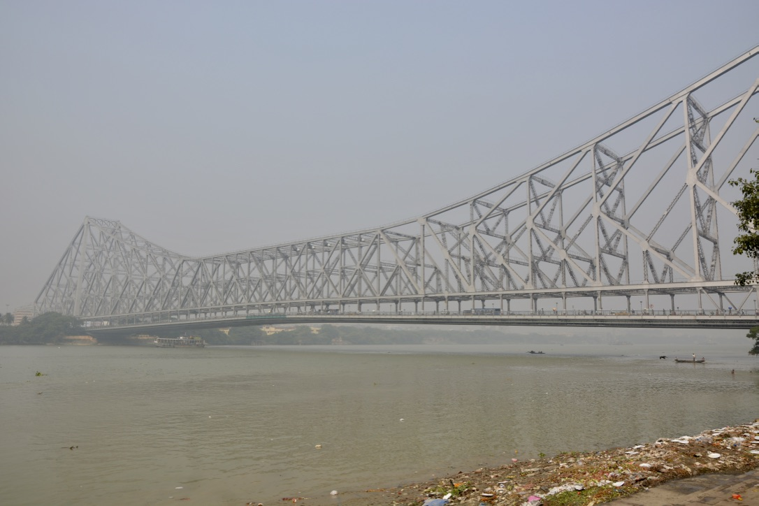 Howrah Bridge